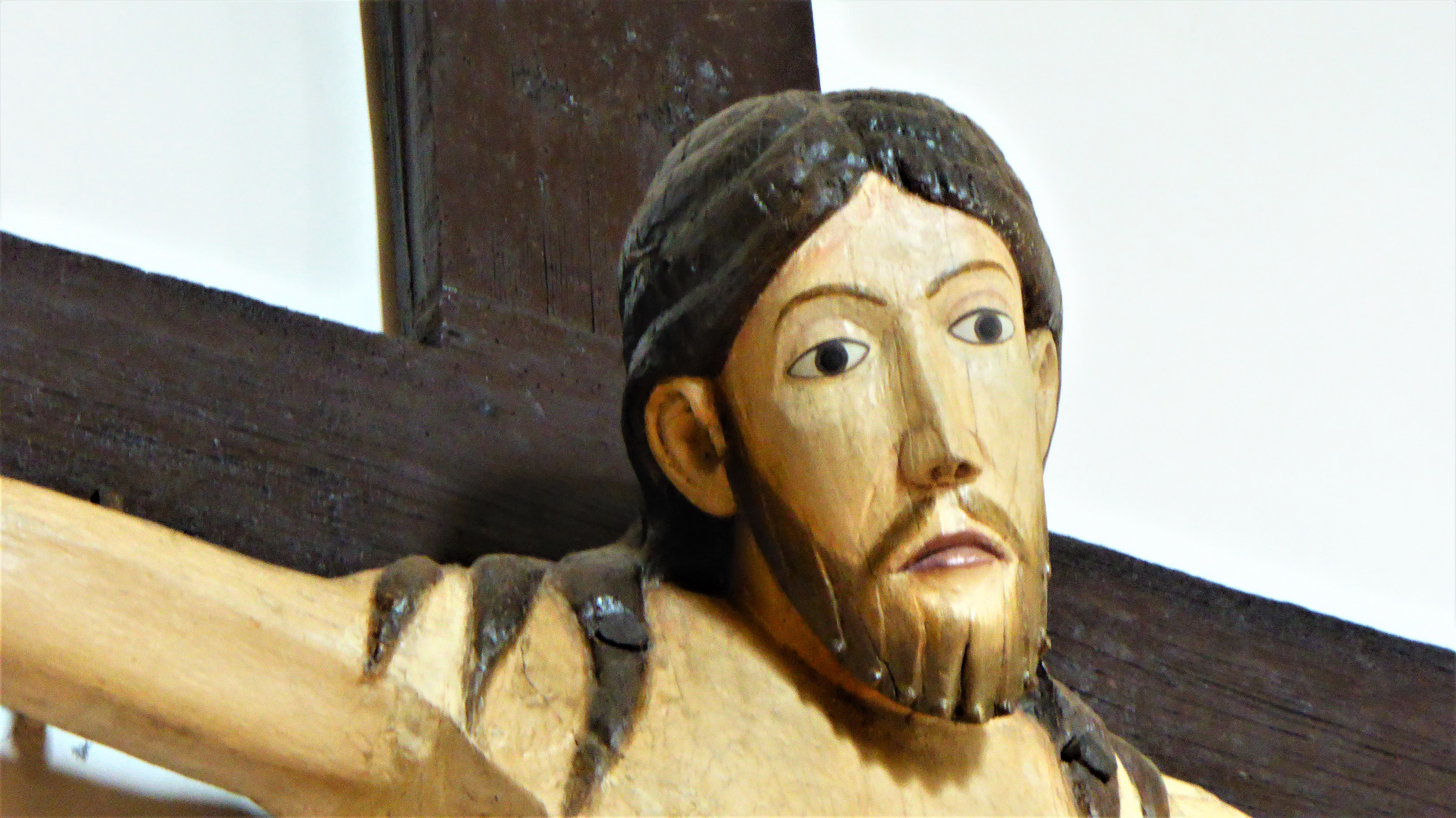 Detail of a roman style wooden carved head of Jesus, one of Germany´s oldest wooden plastic (wood dating around 970 p.D), found in the little rural church of Schaftlach, Upper BavariaThis is a photograph of an architectural monument.